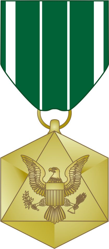 The Department of the Army Civilian Service Commendation Medal, formerly formerly the Commander's Award for Civilian Service, is an honorary award presented by the United States Army to civilian employees for commendable service or achievement.